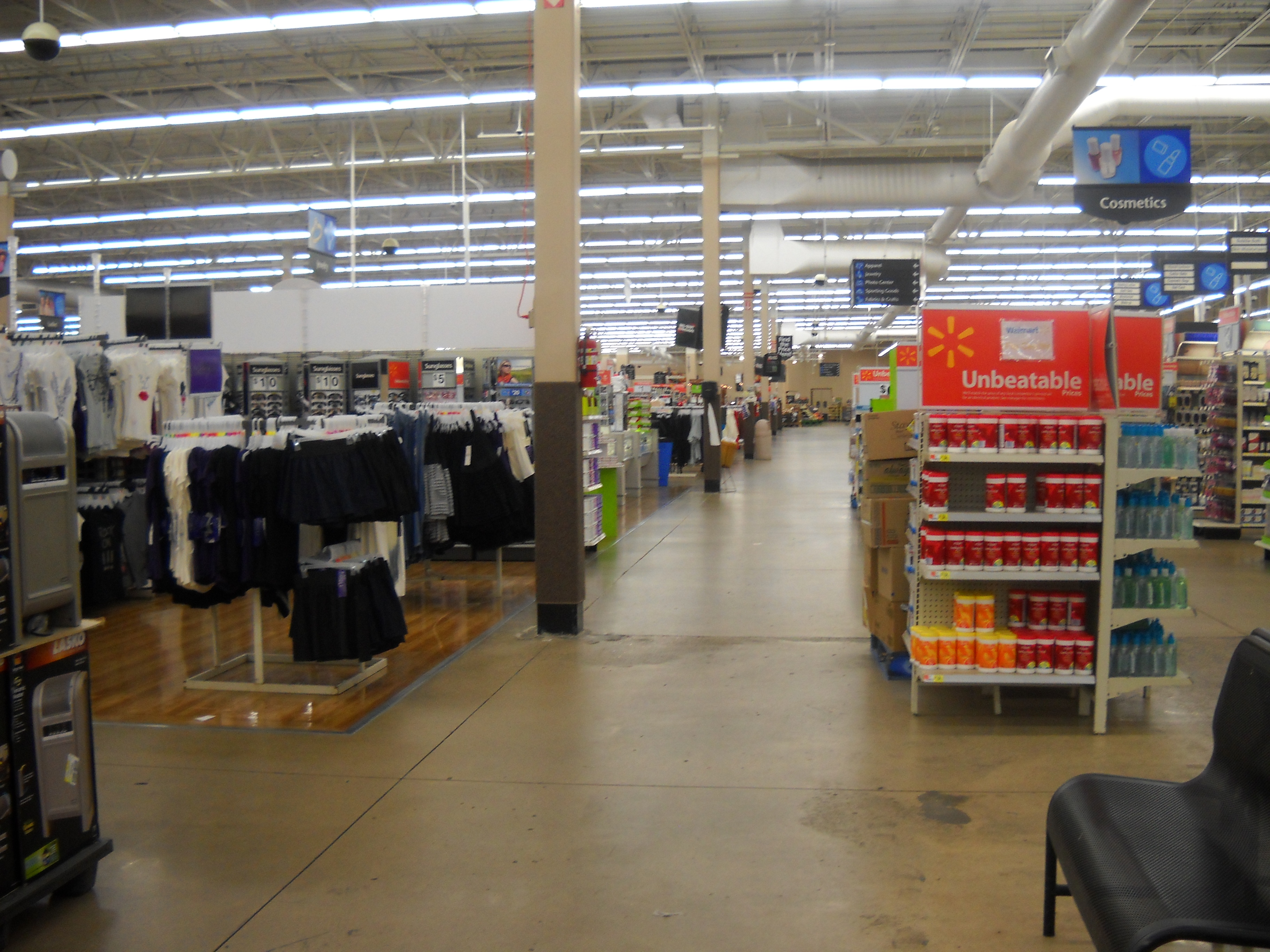 Inside the Walmart (still branded as Wal-Mart) Store #15 at West Plains, Missouri.